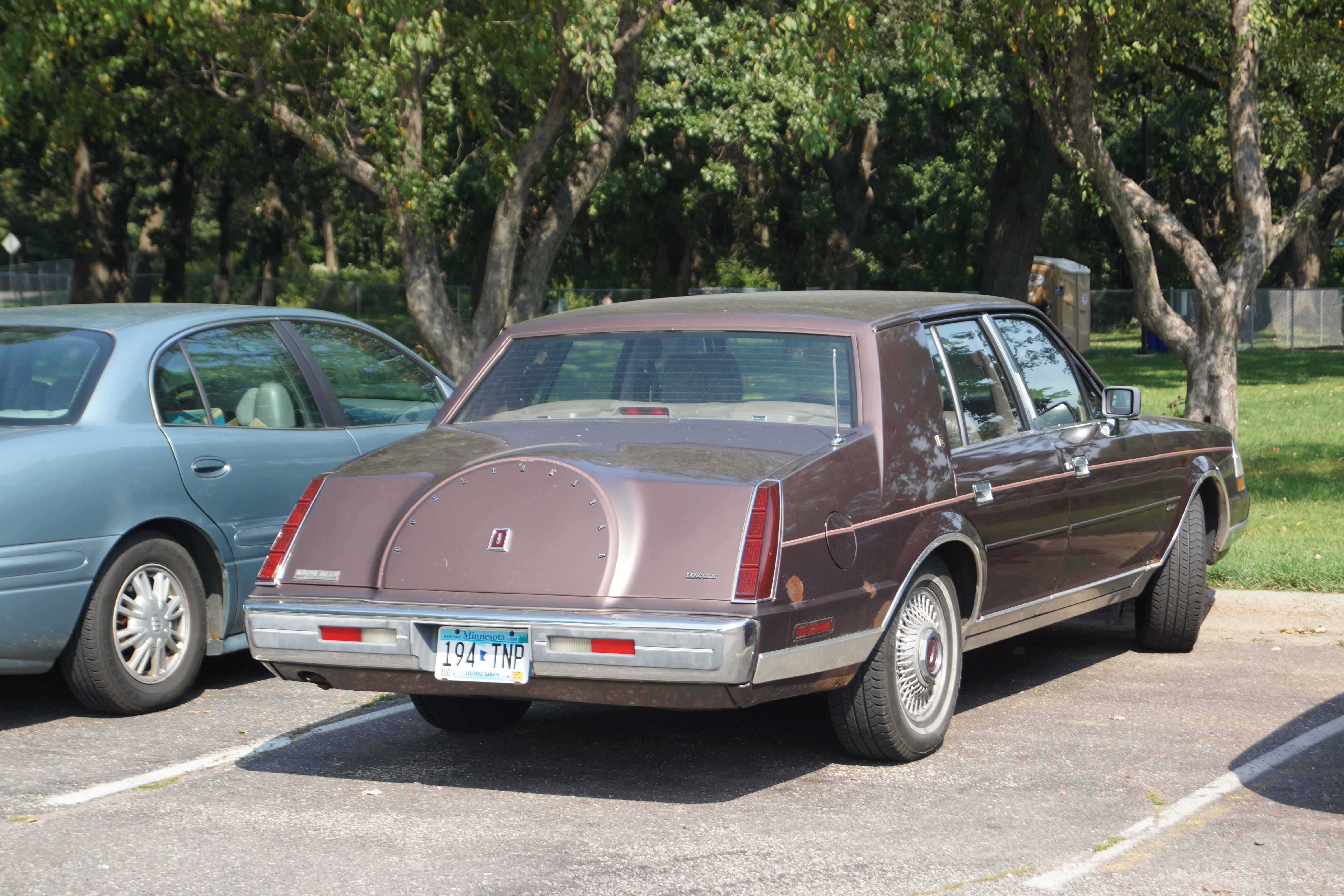 50th Annual Twin Cities Collectors Car Show & Swap Meet Hosted by North Central Chapter Hudson Essex Terraplane Club Aquatore Park Blaine, Minnesota September 2017 ******** Click here for more car pictures at my Flickr site. Or here for my Car Crazy Tumblr site. Or on Twitter @DVS1mn.